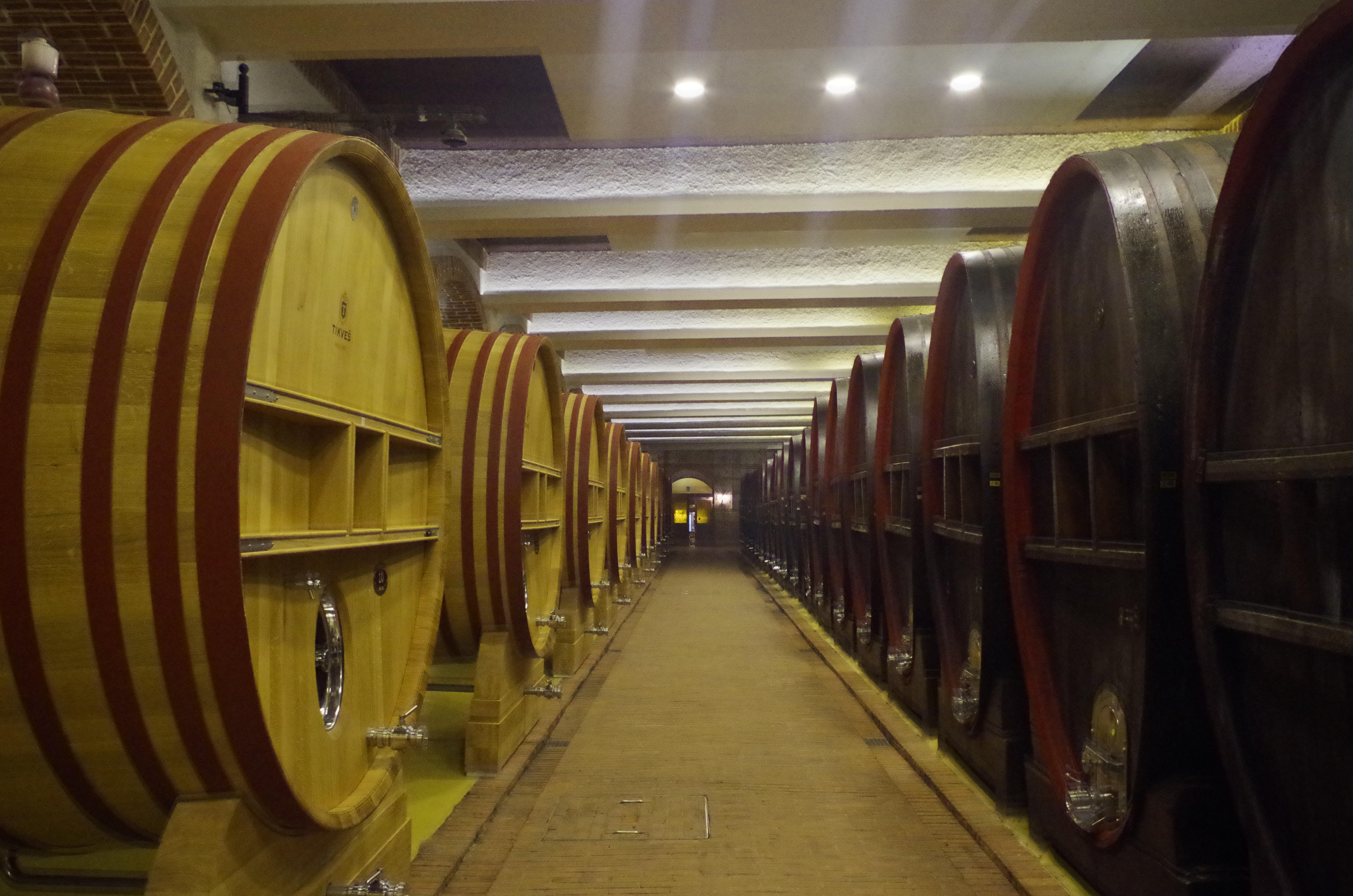 Barrel of wine in Tikvesh winery